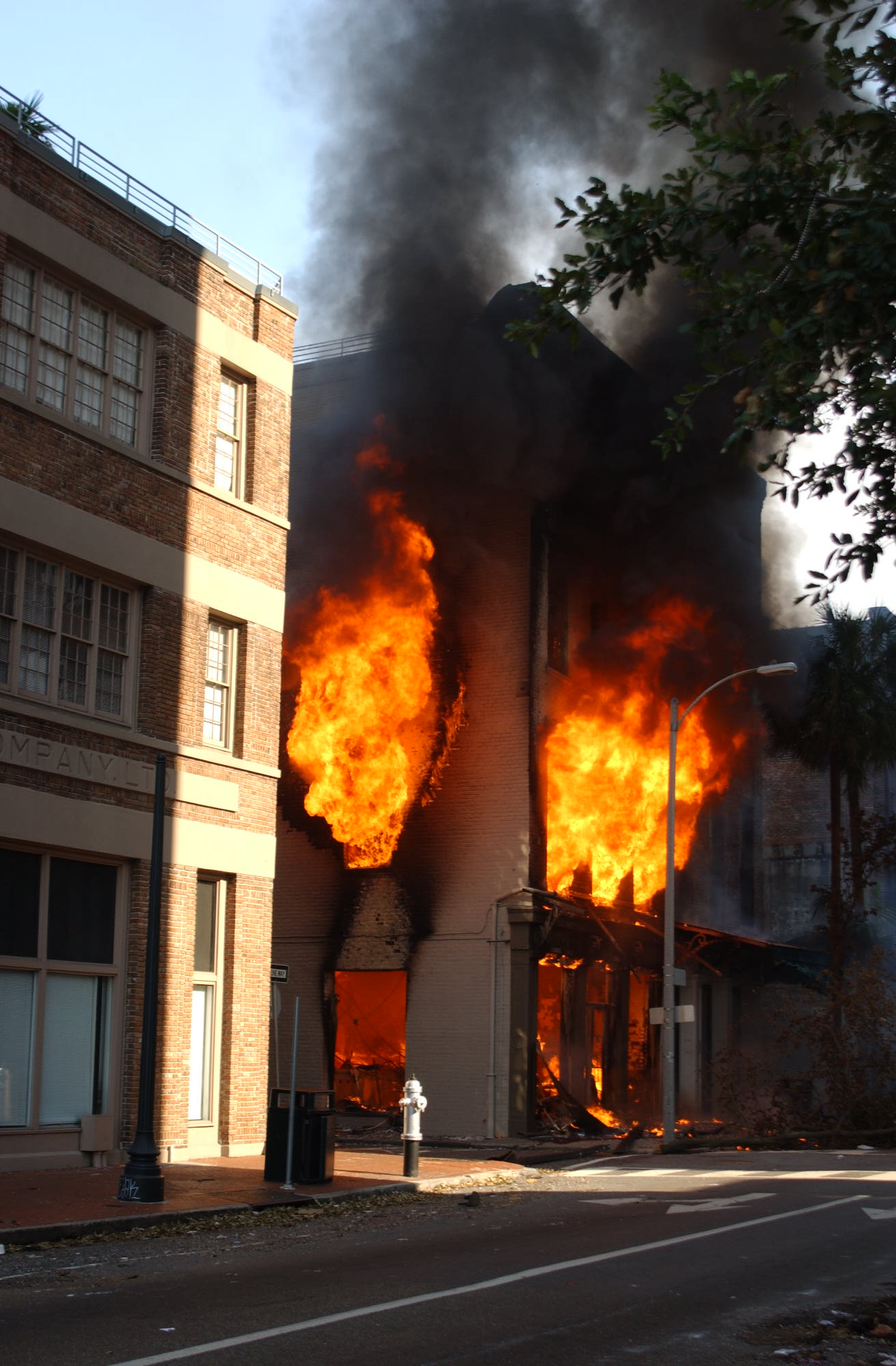 Image of a downtown fire in New Orleans the morning of September 2, 2005.